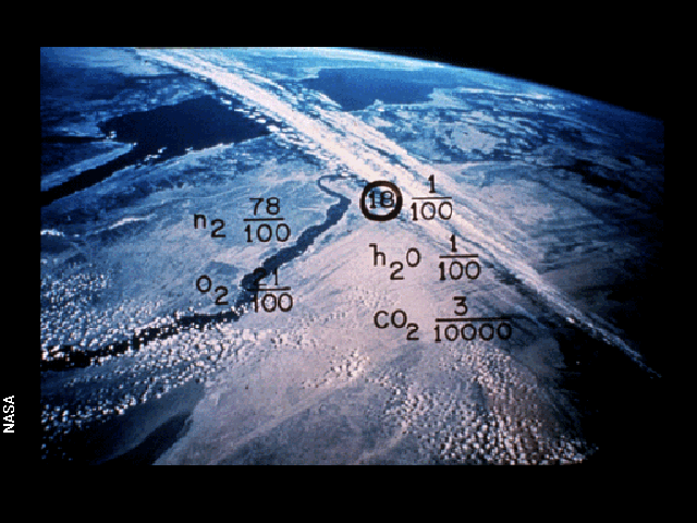 This is a photograph of Egypt, Red Sea, Sinai Peninsula and the Nile from Earth orbit annotated with chemical composition of Earth's atmosphere. It is part of the image collection on the Voyager Golden Record that is being carried into deep space aboard the Voyager 1 and 2 spacecrafts. The low quality and resolution is due to the limitations of the format used on the record but it is what will be seen by an extraterrestrial intelligent life form if the probes ever gets discovered.